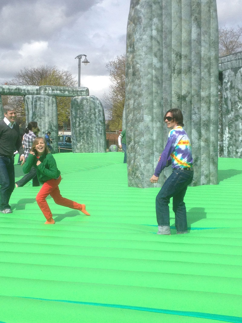 From the inauguration of Jeremy Deller's piece Sacrilege in Glasgow for the Glasgow International 2012.